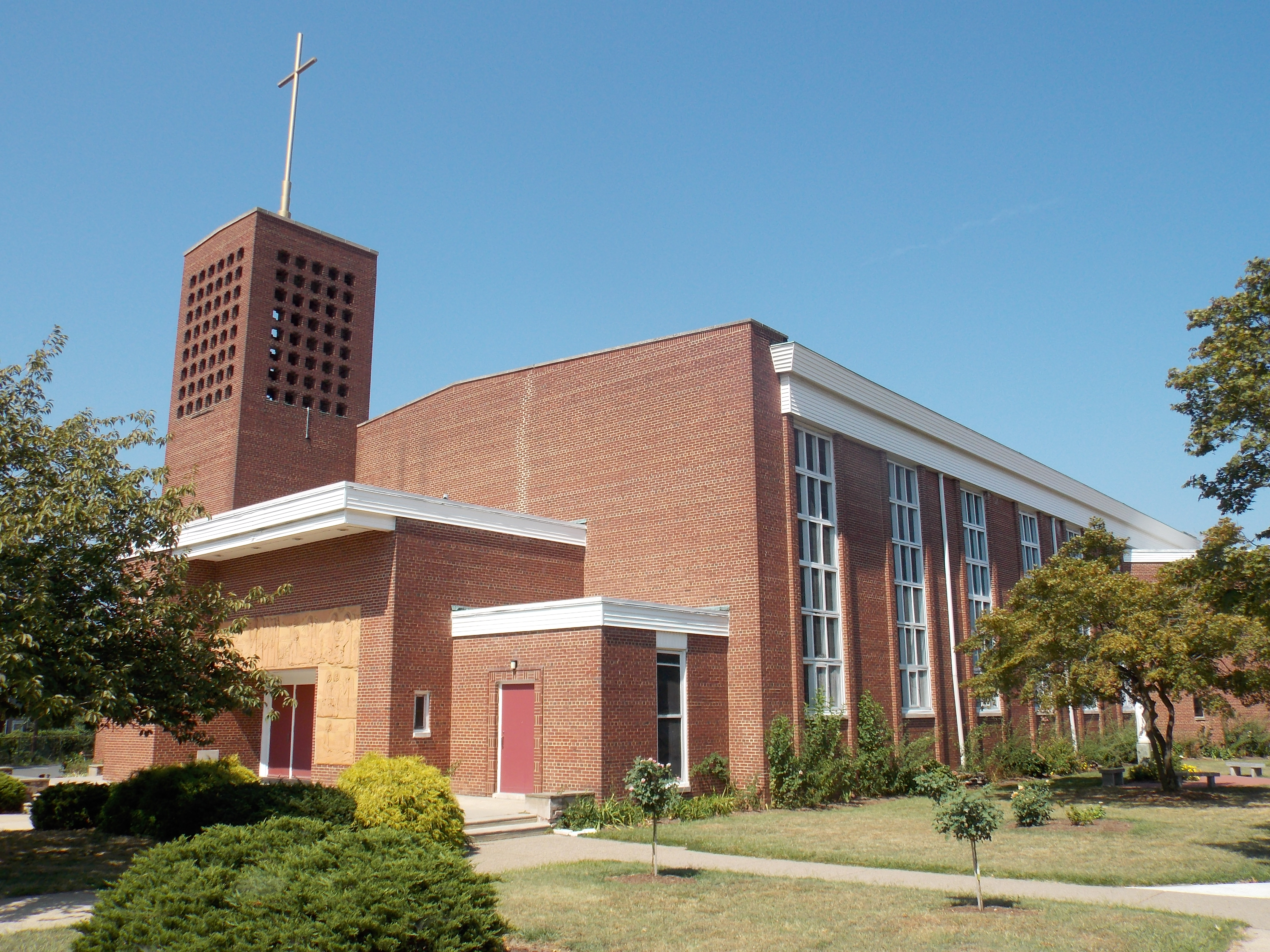 St. Joseph Pro-Cathedral on Federal Street in Camden, New Jersey.